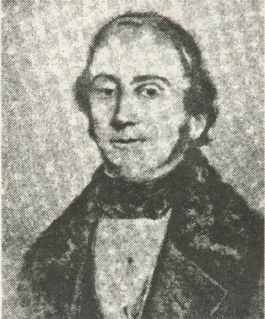 Lorenz Diefenbach